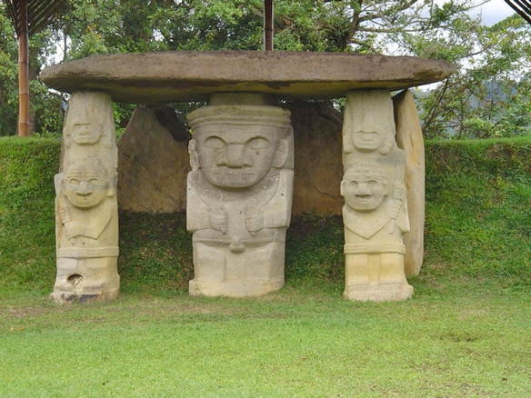 Statues of a mortuary monument of the San Agustín indian cult in Colombia